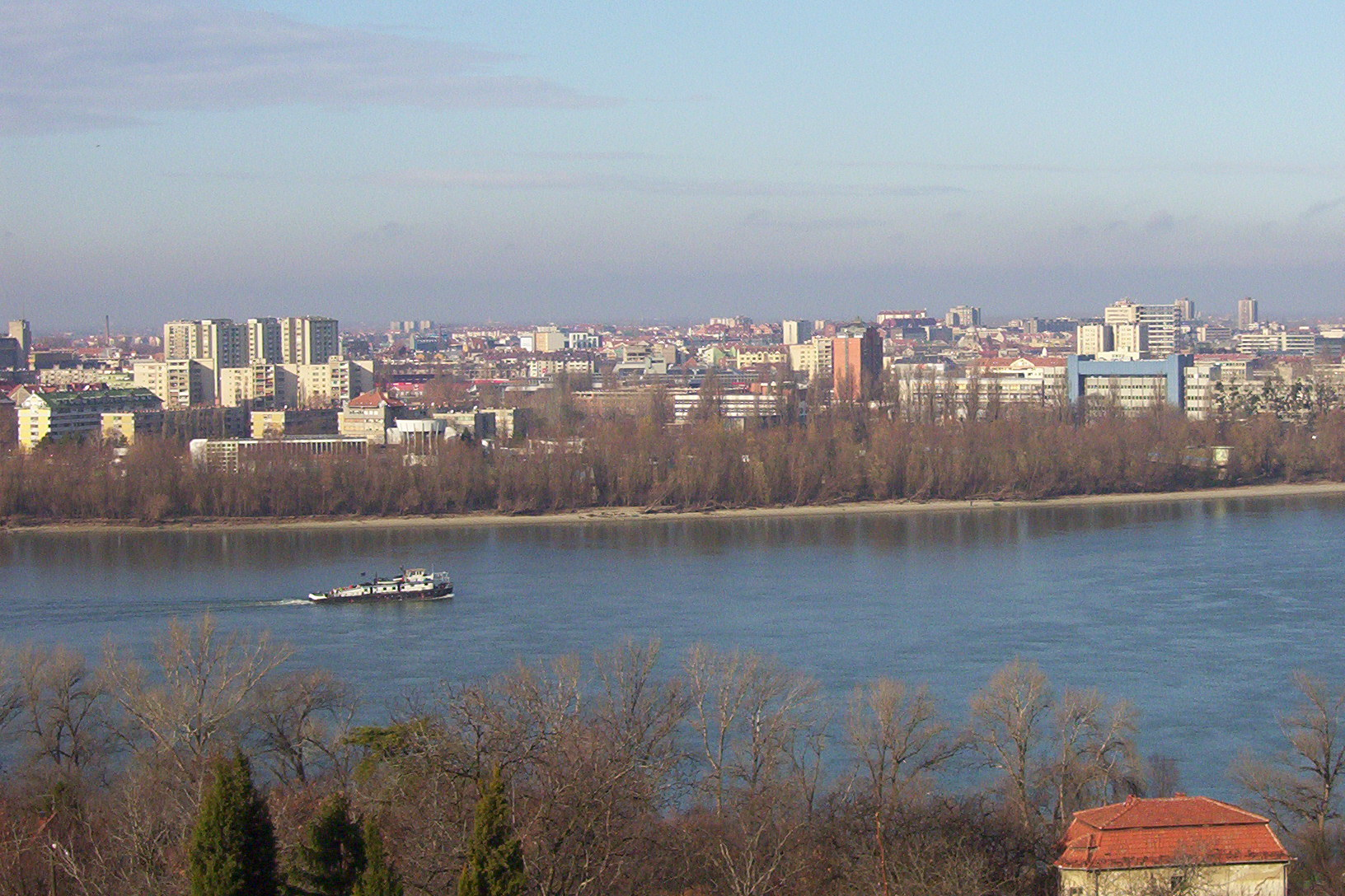 View of Novi Sad and Dunube river